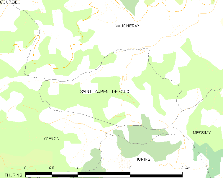 Map of French municipality